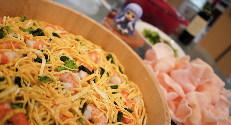 Neighbors bring over some yummy Chirashi over for noms.